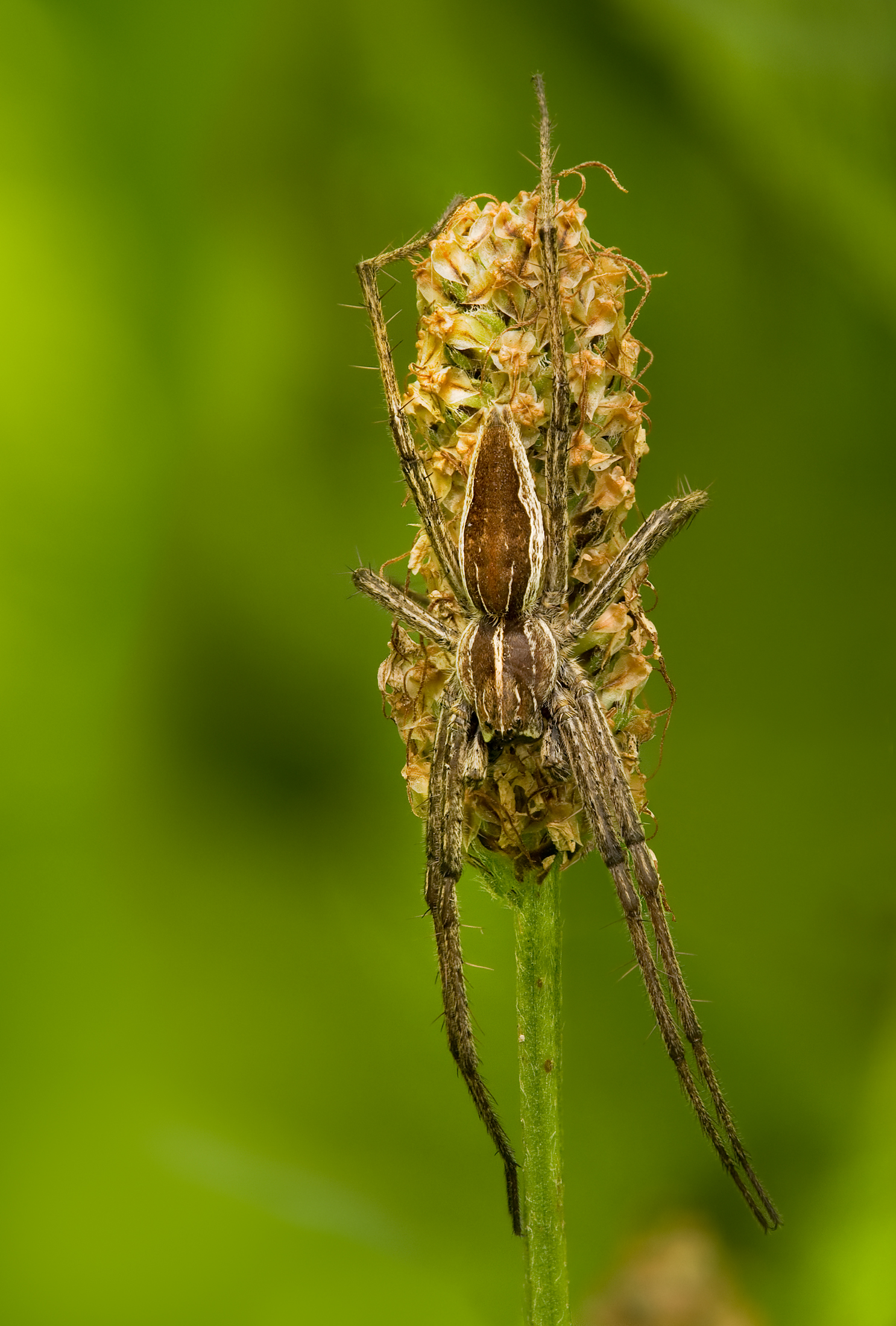 The nursery web spider (Pisaura mirabilis) is a spider species of the family Pisauridae. Ribwort Plantain (Plantago lanceolata), also called English Plantain, is a plant of genus Plantago.